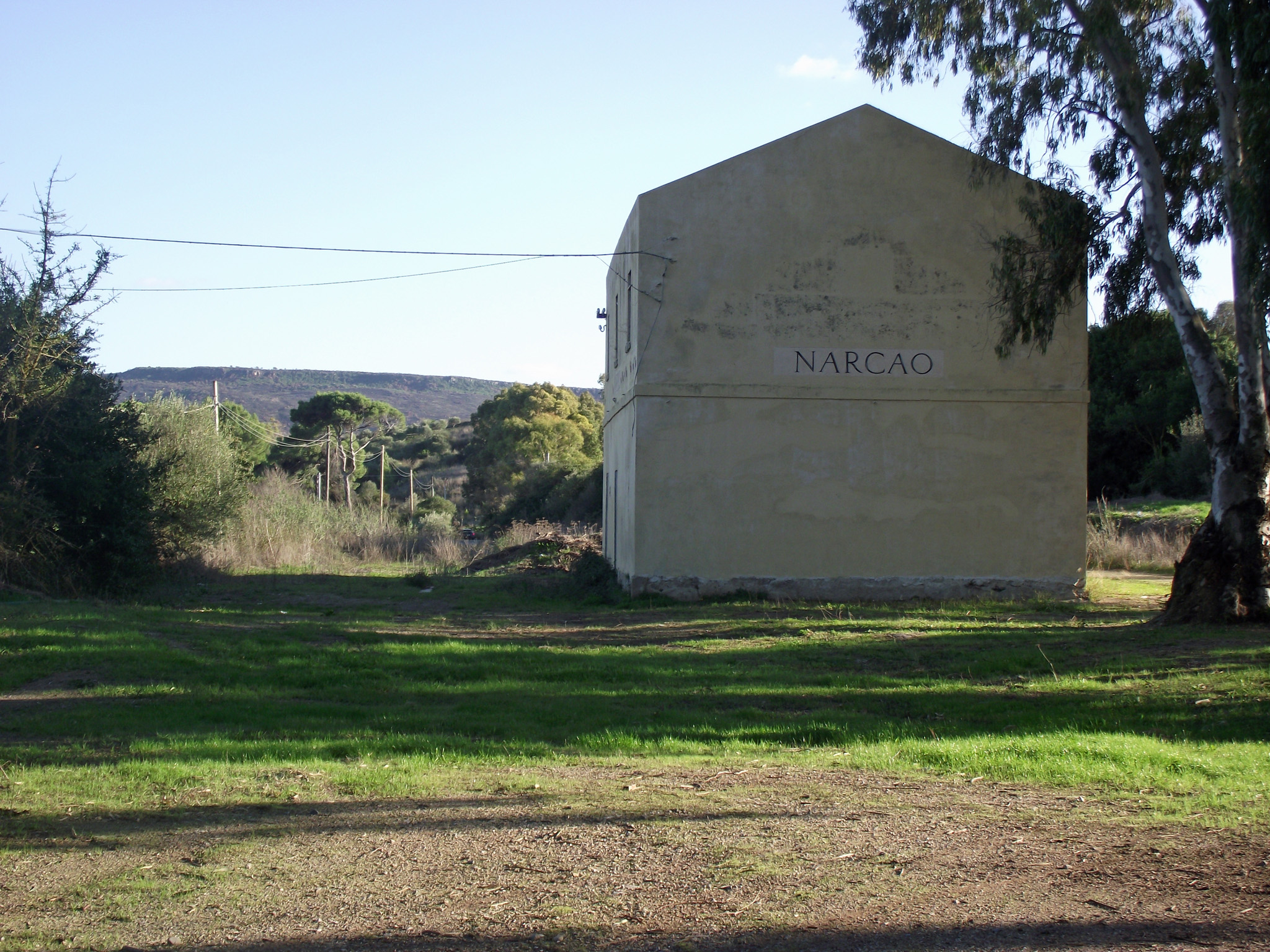 The remains of the former FMS railway station of Narcao, in Sardinia, Italy, along the former railway Siliqua-San Giovanni Suergiu-Calasetta, closed in 1974.